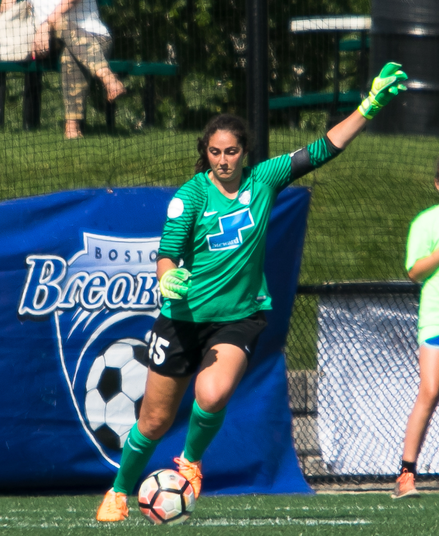 Sammy Jo Prudhomme playing for the Boston Breakers in the 2017 NWSL season